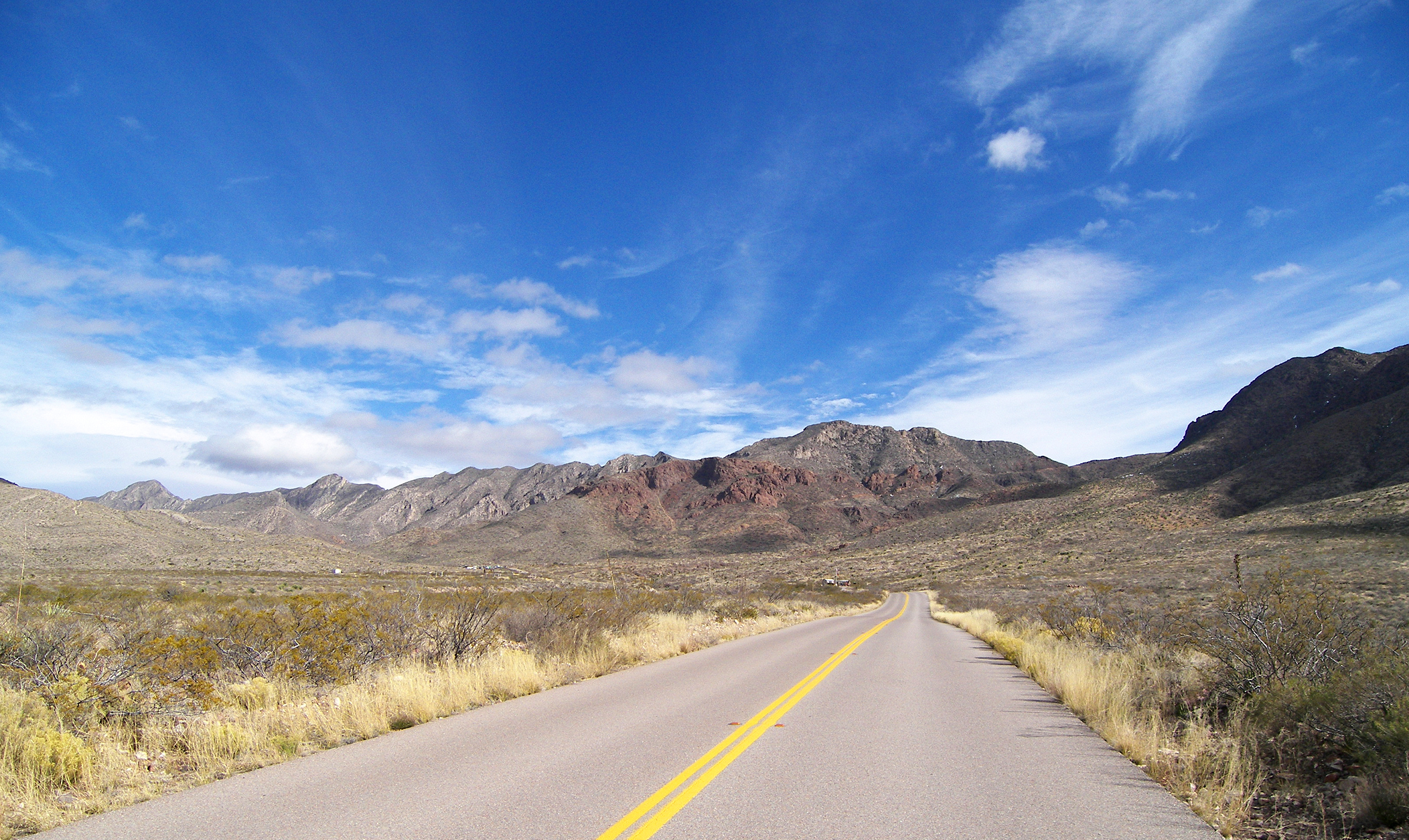 Entrance Road to a section of Franklin Mountains State Park, El Paso, Texas, United States.